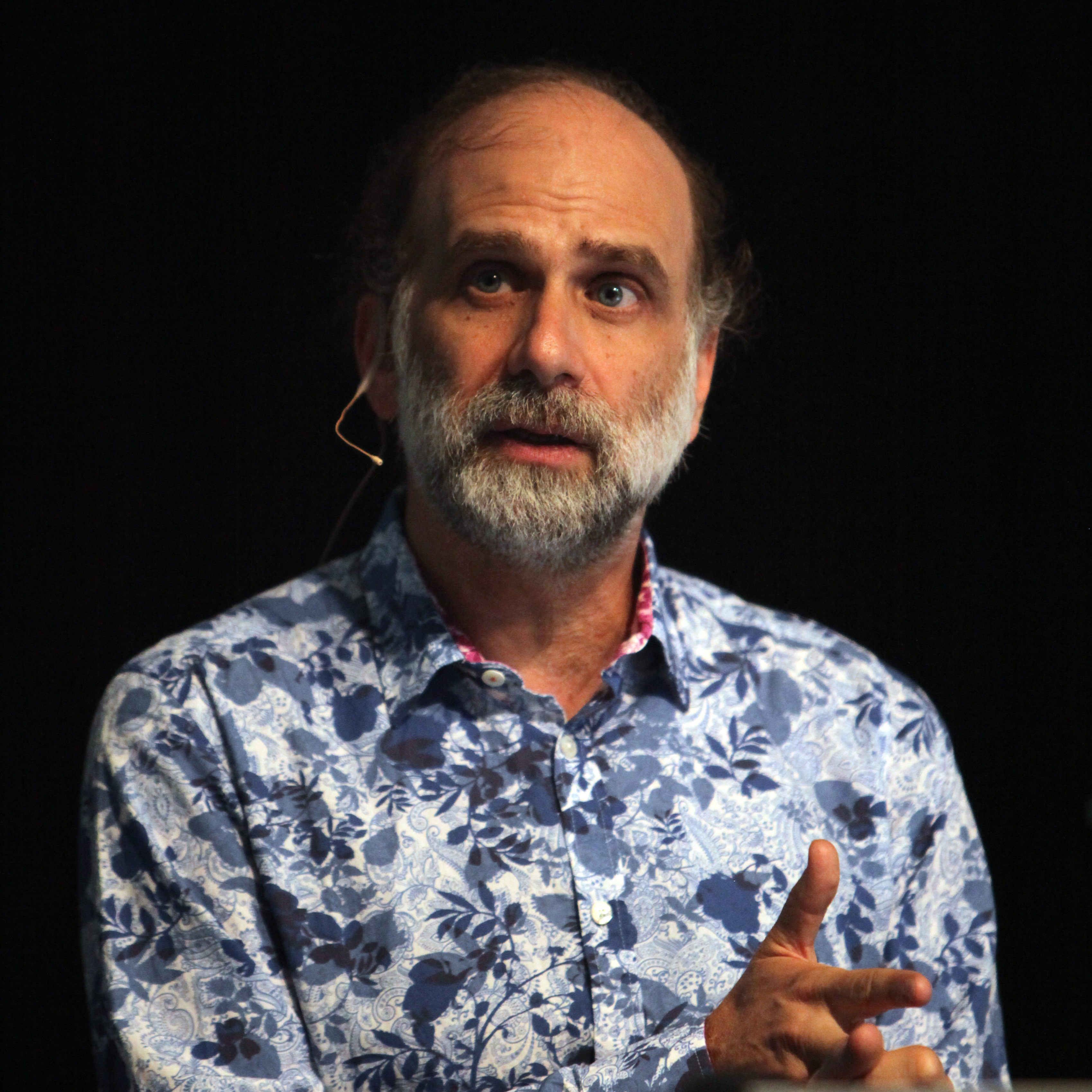 Bruce Schneier at the Congress on Privacy & Surveillance (CoPS213) at the École Polytechnique Fédérale de Lausanne.